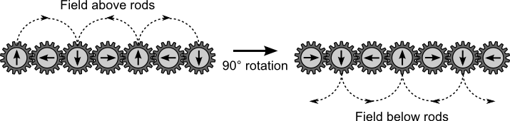 Schematic of a geared Halbach array consisting of magnetized rods. The field swaps from above to below the plane of the device when each rod is alternately rotated by 90 degrees.